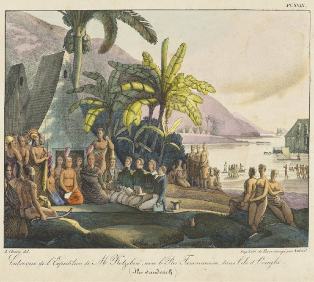 Entrevue de l'expedition de M. Kotzebue avec le roi Tammeamea dans l'ile d'Ovayhi, Iles Sandwich. Description [1827]. 1 print : lithograph, hand col.; 20.5 x 26.3 cm. Collection Rex Nan Kivell Collection ; NK657. Notes Pl. no. 18 of: Vues et paysages des regions equinoxiales / Louis Choris.